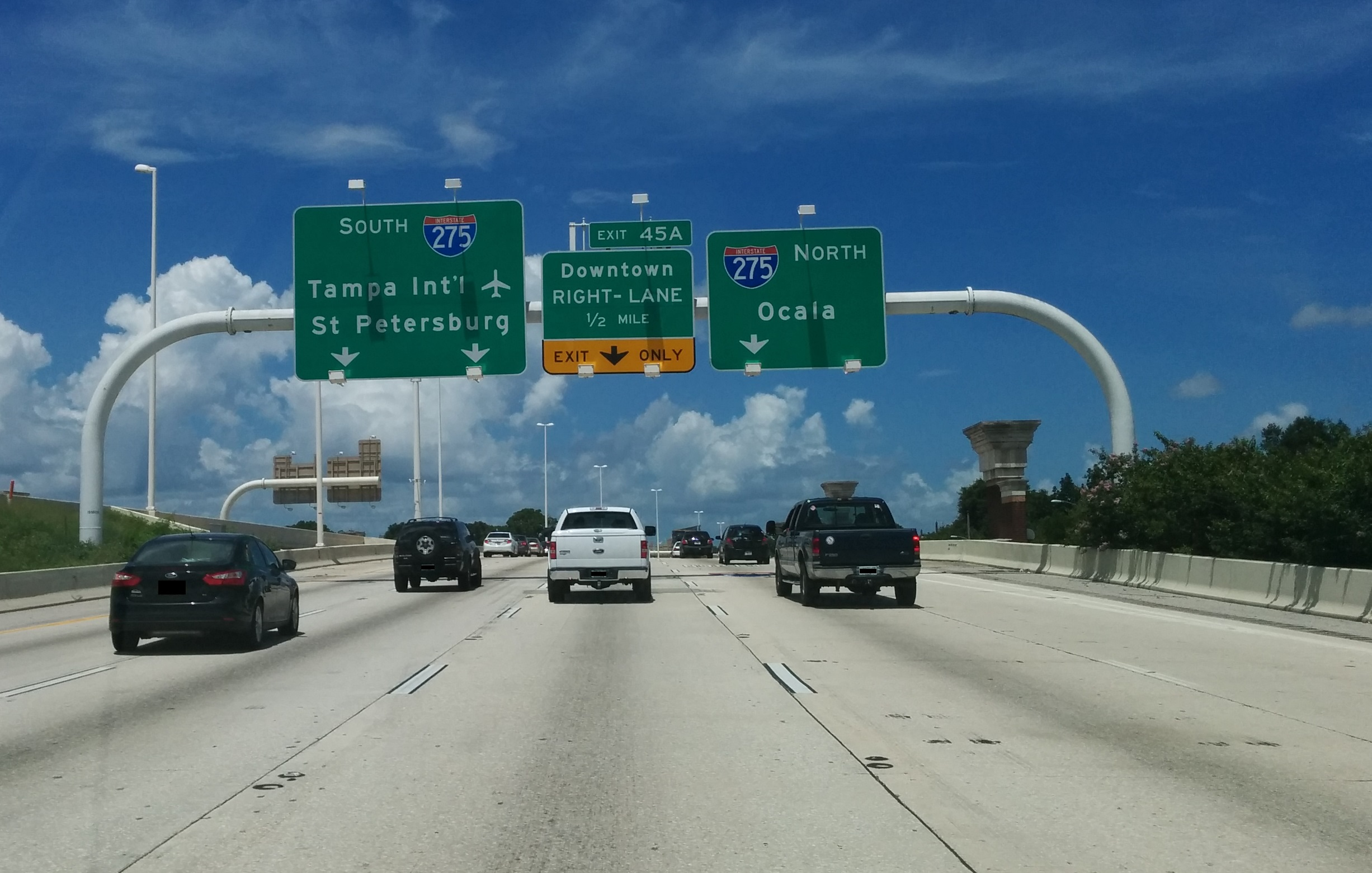 Westbound Interstate 4 approaching Interstate 275.